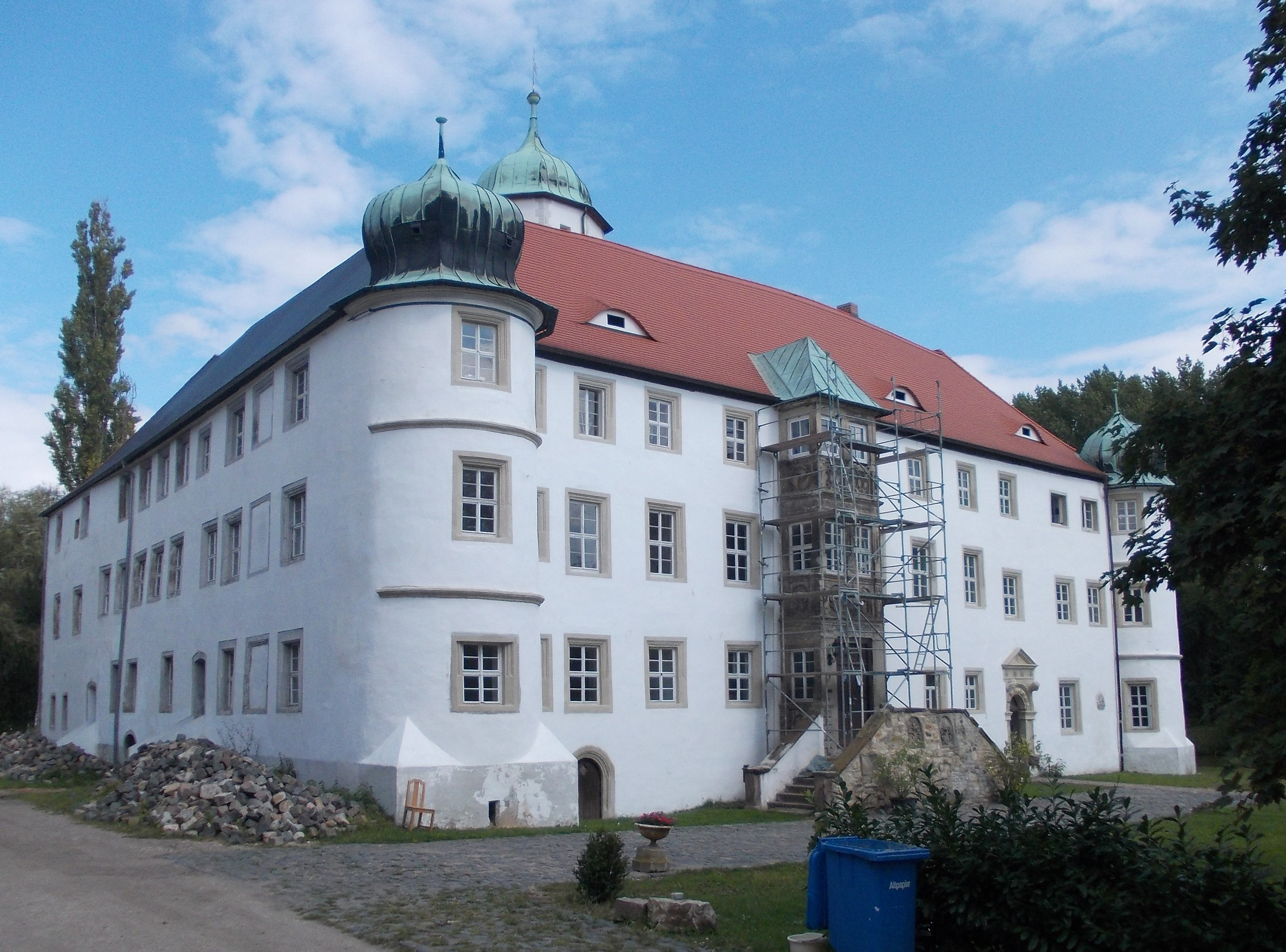 Frankleben Castle (Braunsbedra, district: Saalekreis, Saxony-Anhalt)